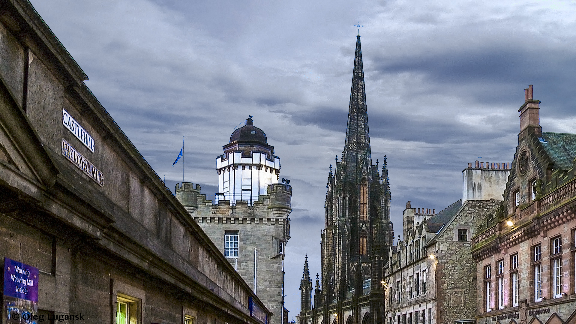 Edinburgh, Royal Mile, Castlehill. View of the Hub.